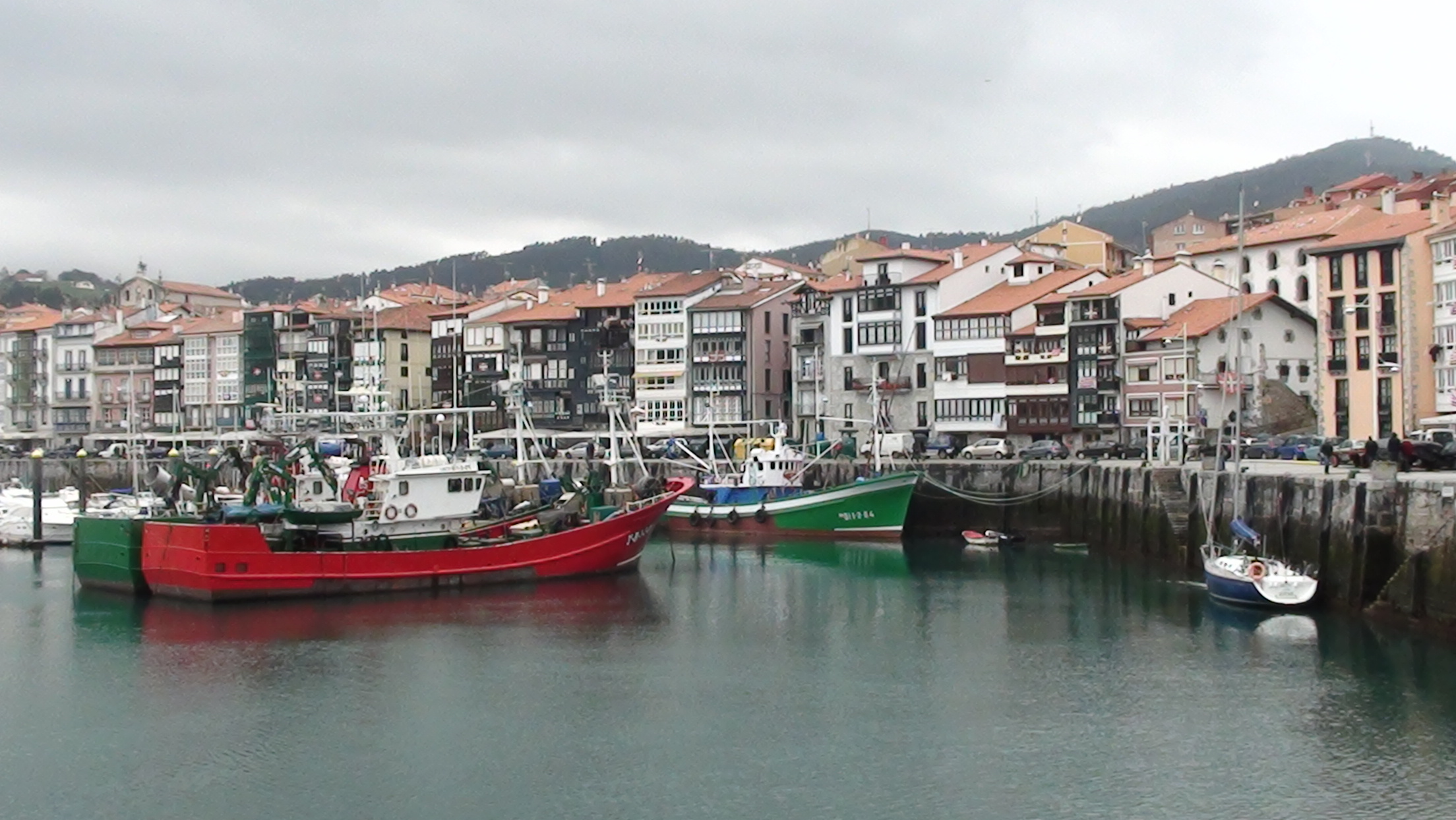 The harbour at Lekeitio, in Biscay, The Basque Country